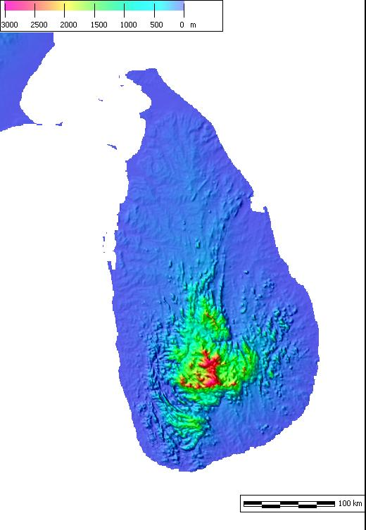 Topographic relief map of Sri Lanka created by me from NASA Shuttle Radar Terrain Model data using Peter Guth's Microdem programme, with reflectance texturing.